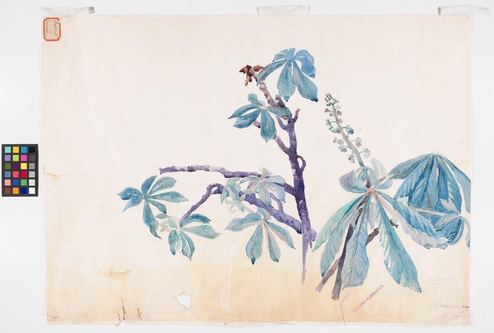 A watercolor painting by Alice Carmen Gouvy